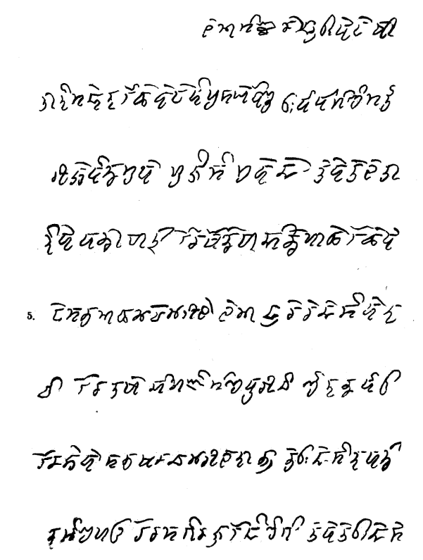 Specimen in Kulluvi language